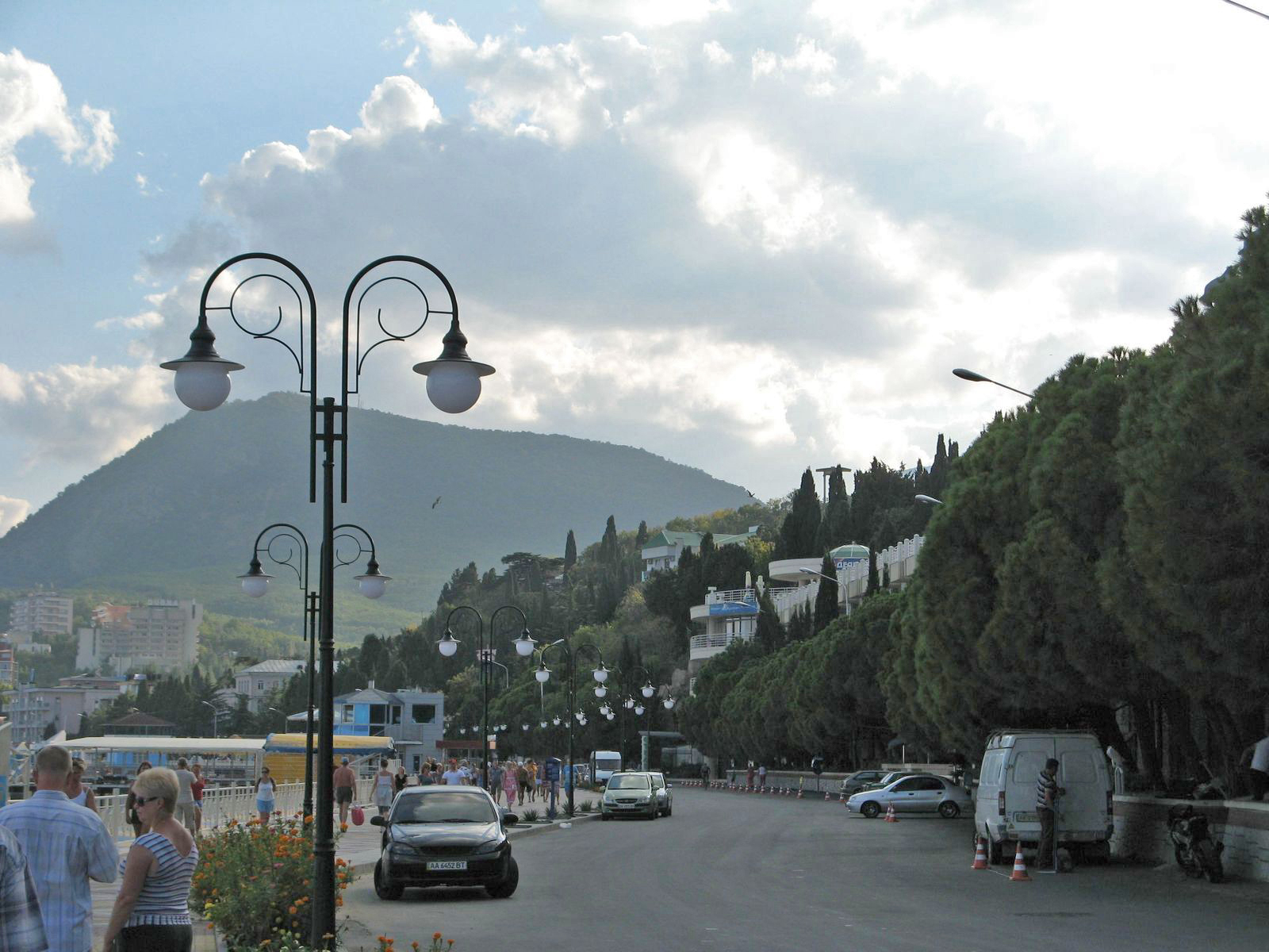 Kastel mountain in Alushta, South Crimea